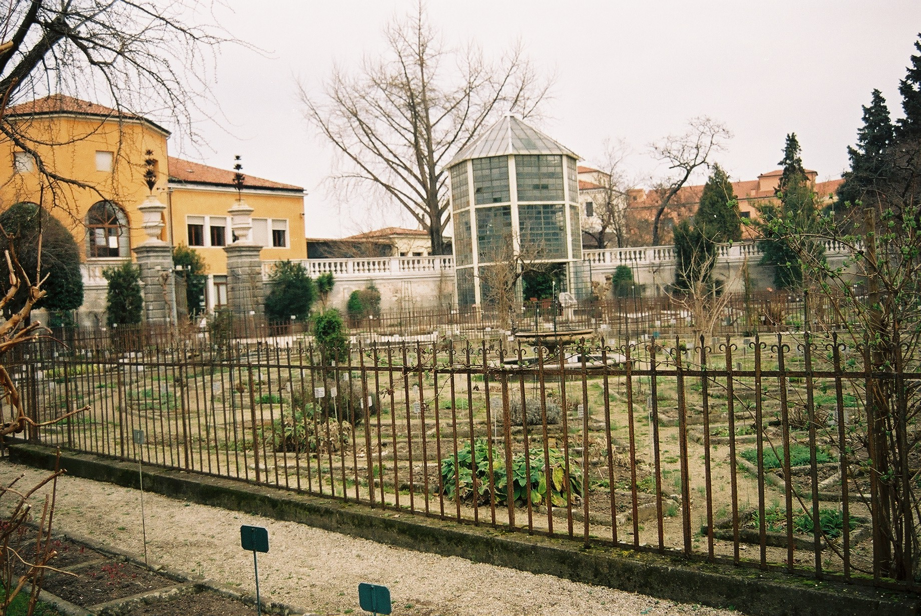 Botanical Garden (Orto Botanico), Padua (Italy)